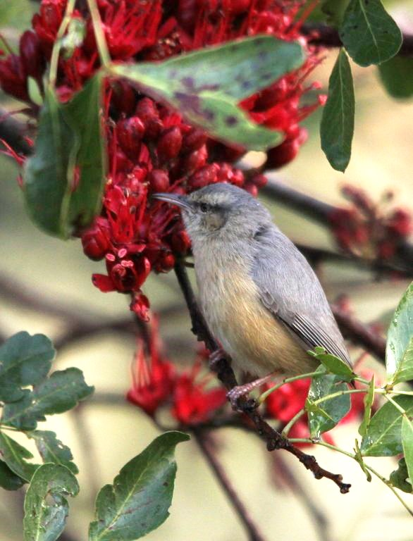 Long-billed Crombec (or Cape Crombec) Sylvietta rufescens